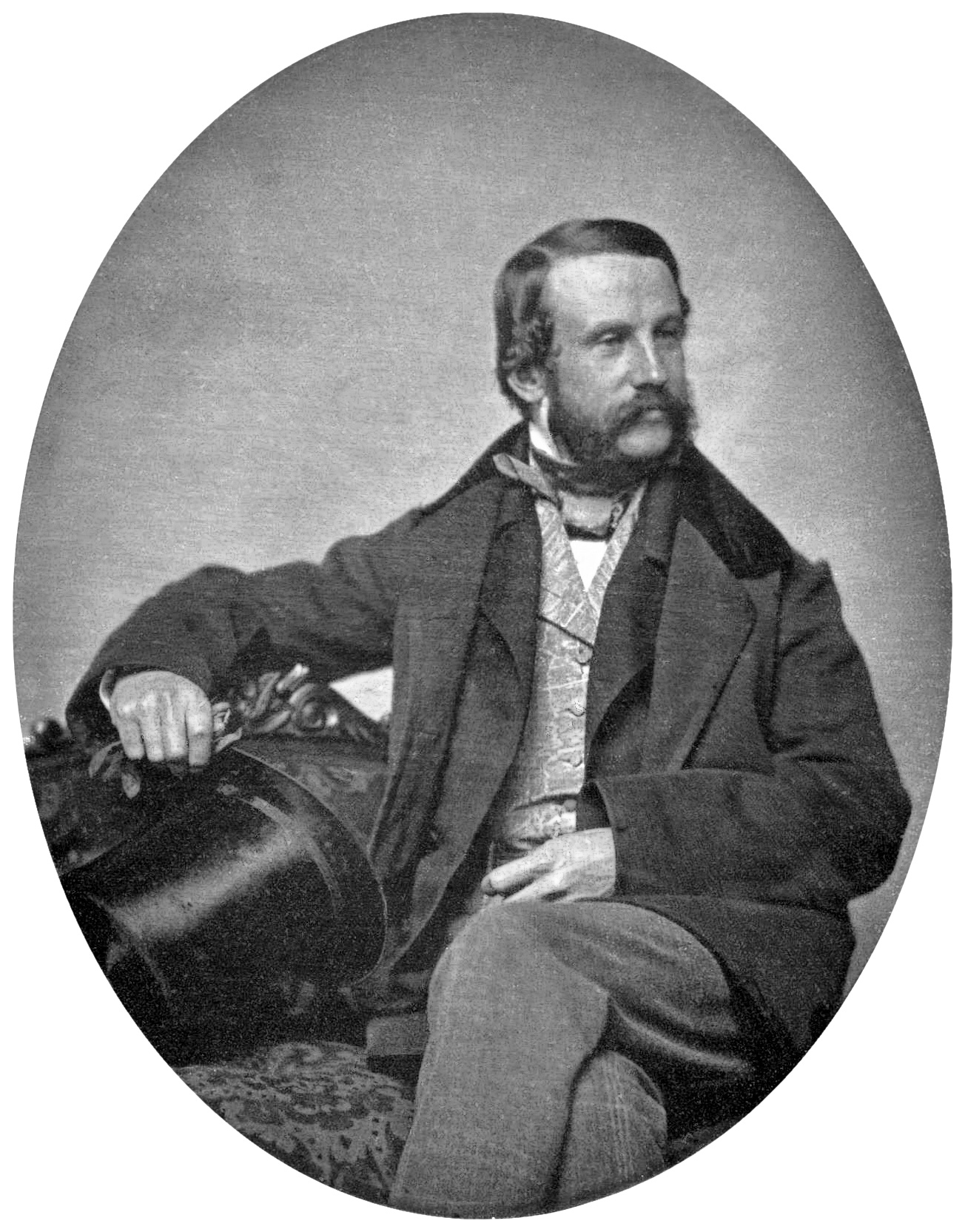 Henry Jacob Bigelow (1818-1890); Quarter plate daguerreotype or half plate daguerreotype cut down